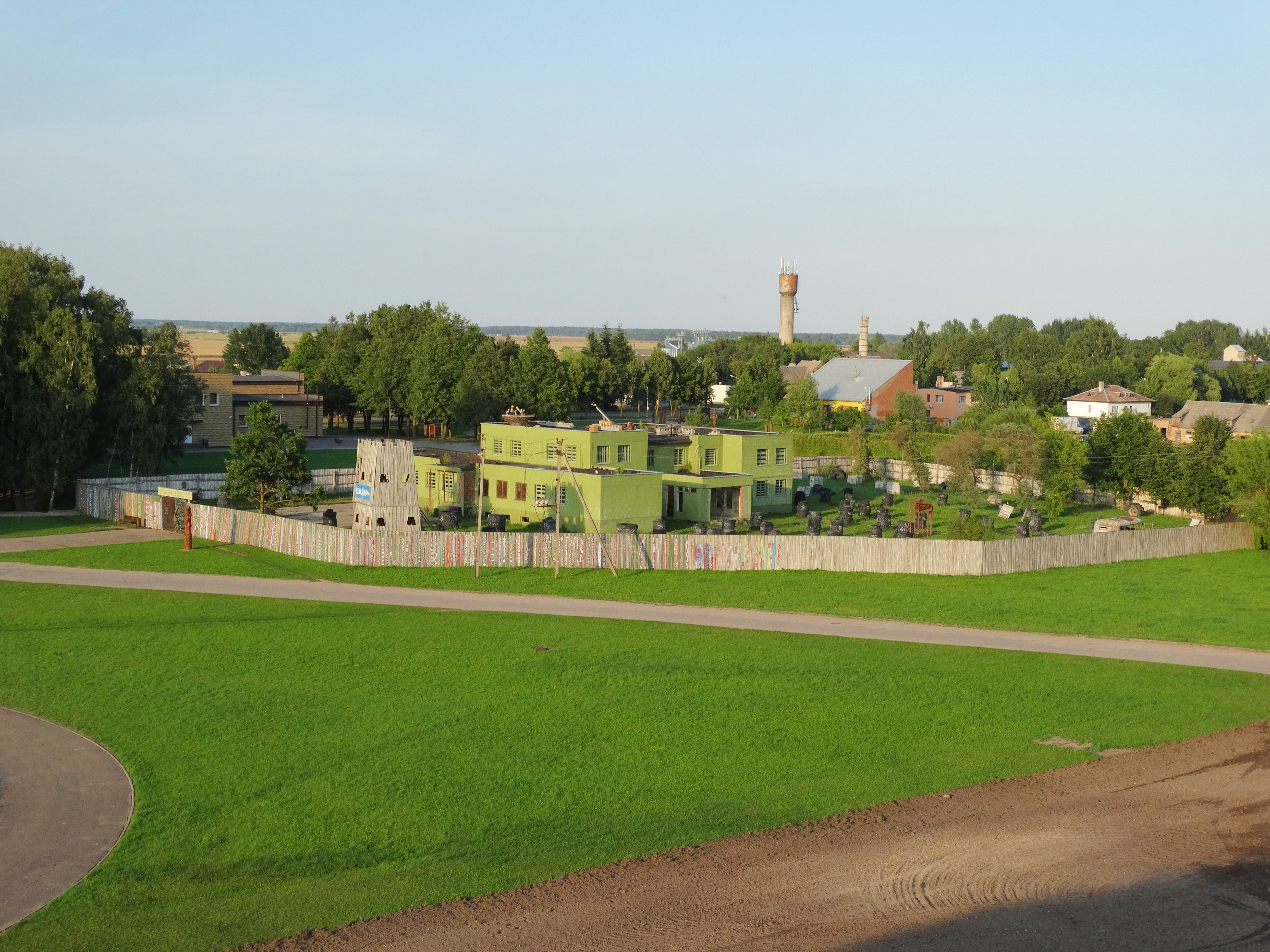 Naisiai, Šiauliai district, Lithuania